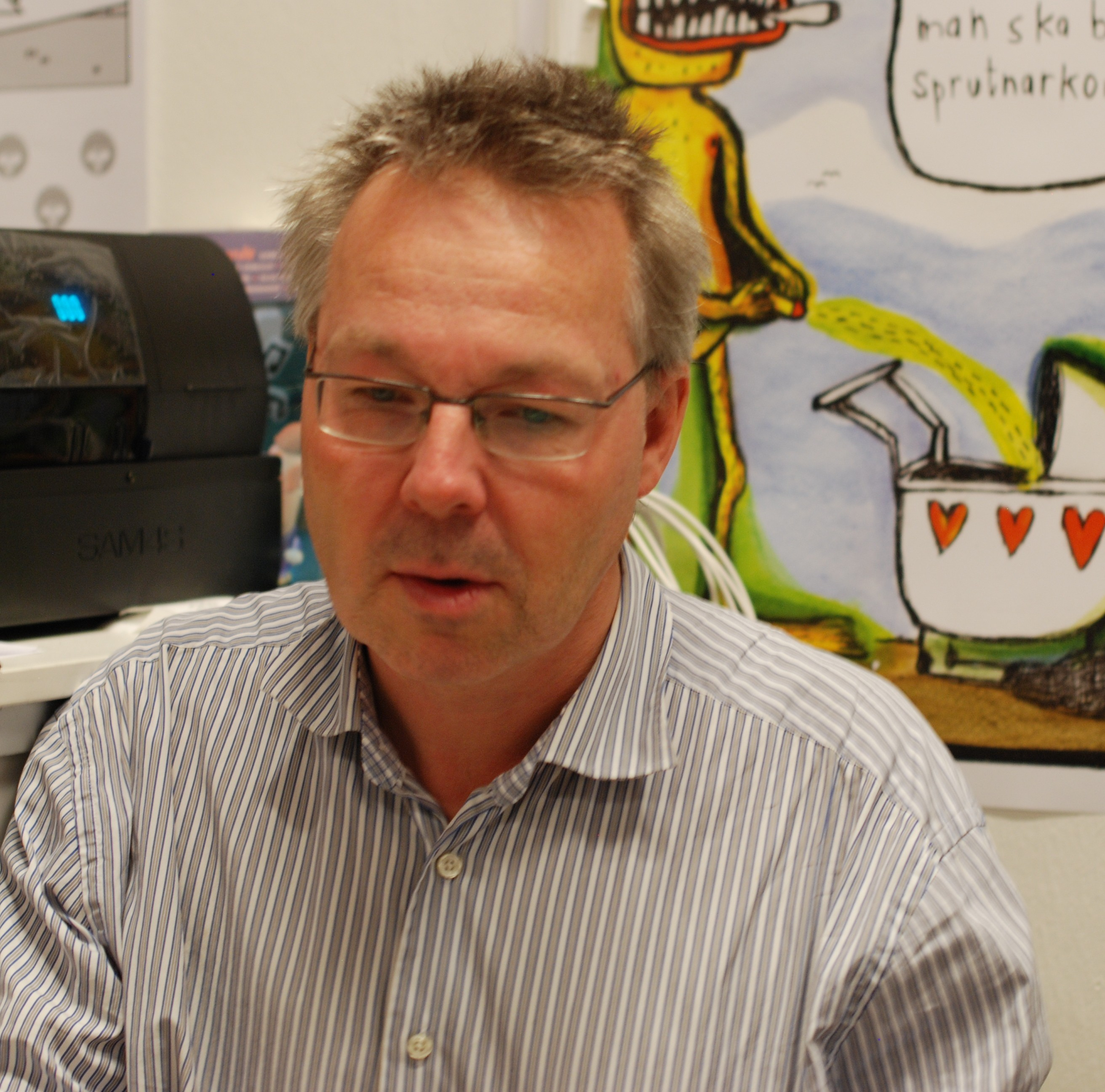 Swedish cartoonist and writer Joakim Pirinen at the Göteborg Book Fair 2010